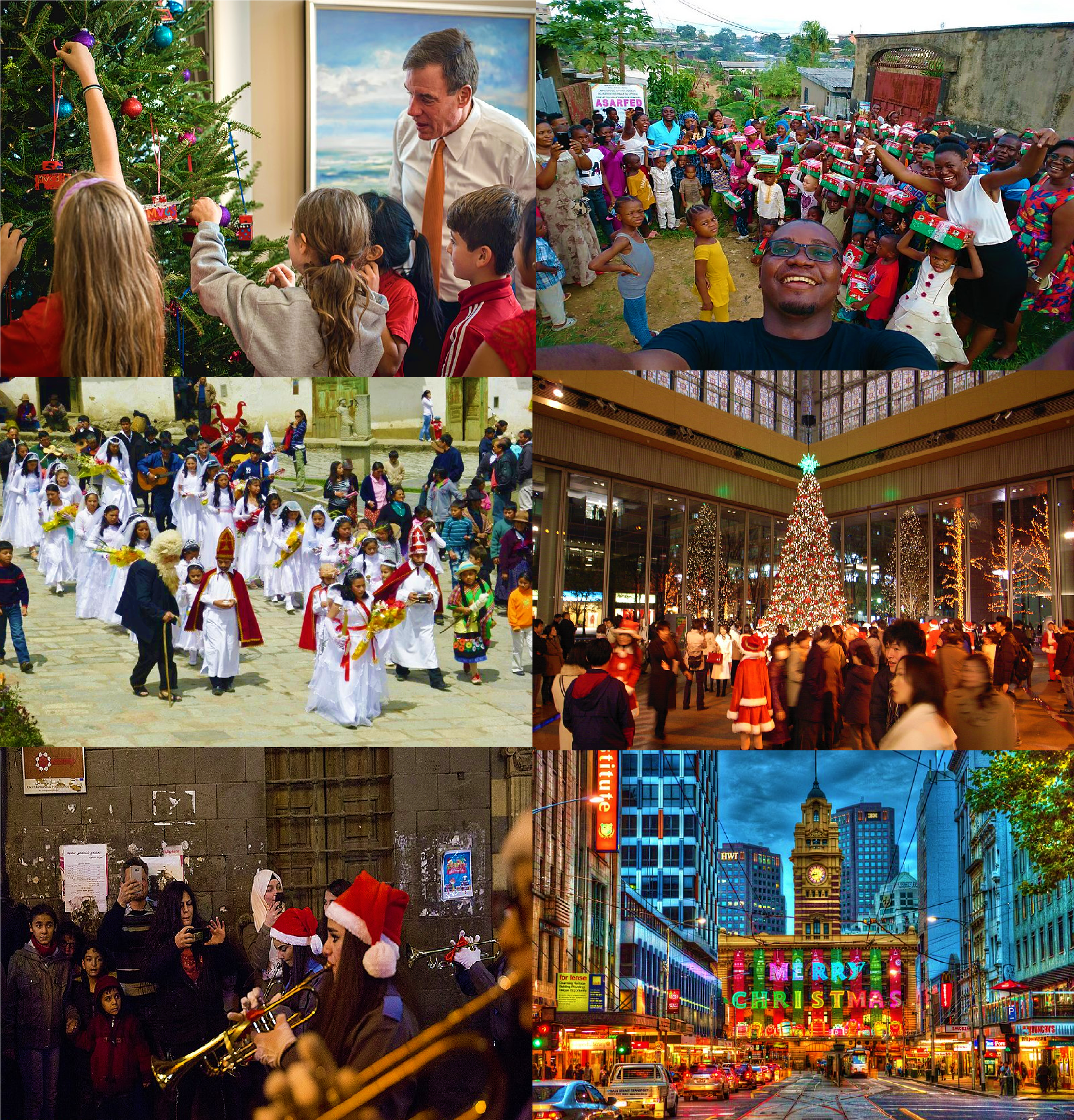 Photomontage of Christmas season celebrations in several countries across the continents.